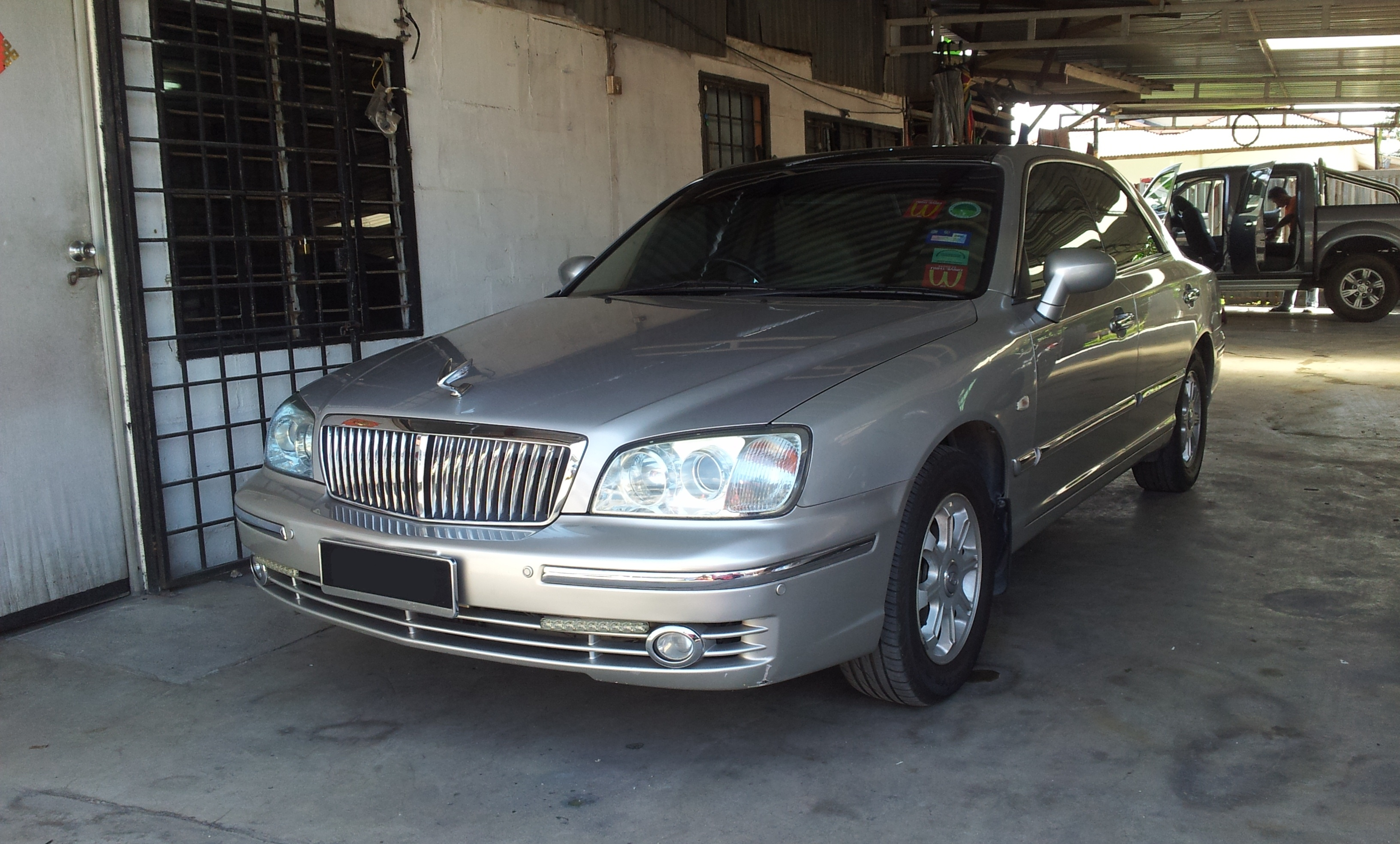 This is a photo of a 2003-2005 Hyundai Grandeur XG facelift. The full name should be "2003 Hyundai Grandeur XG250 Royal Saloon (BRABUS Limited). In Korea, this facelift is also known as "New Grandeur XG". It was unveiled in March 2002 until the discontinuation date of May 2005.